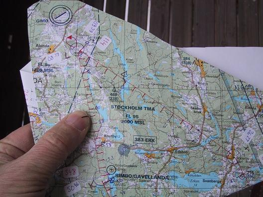 Prepared map with notes taken during the flight.